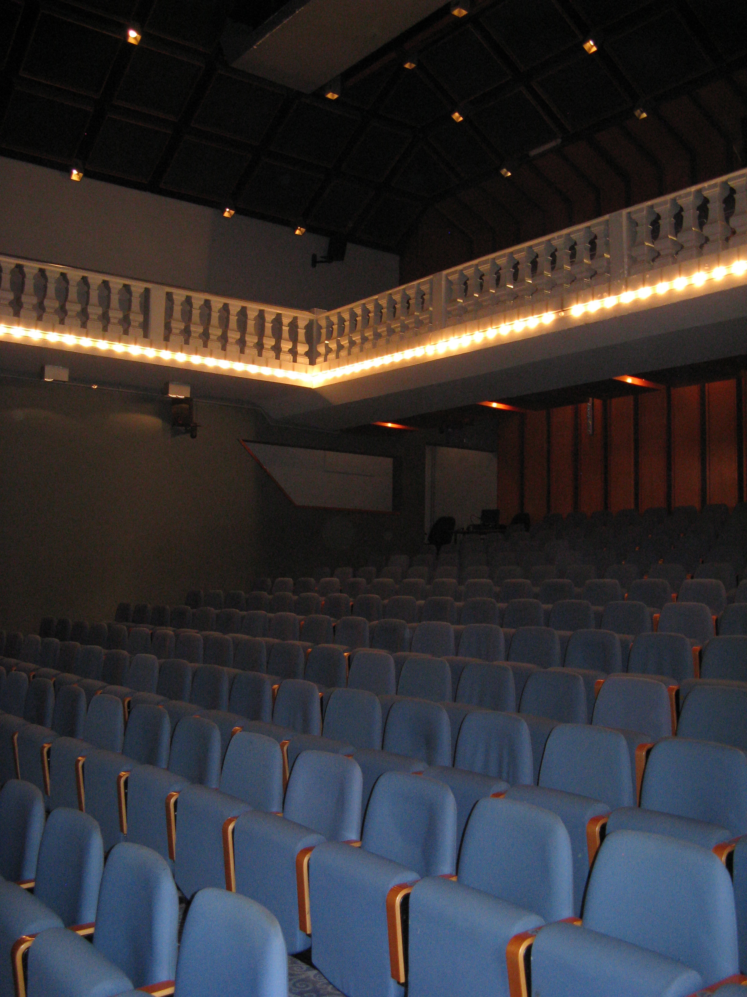 Suzanne Dellal Centre.